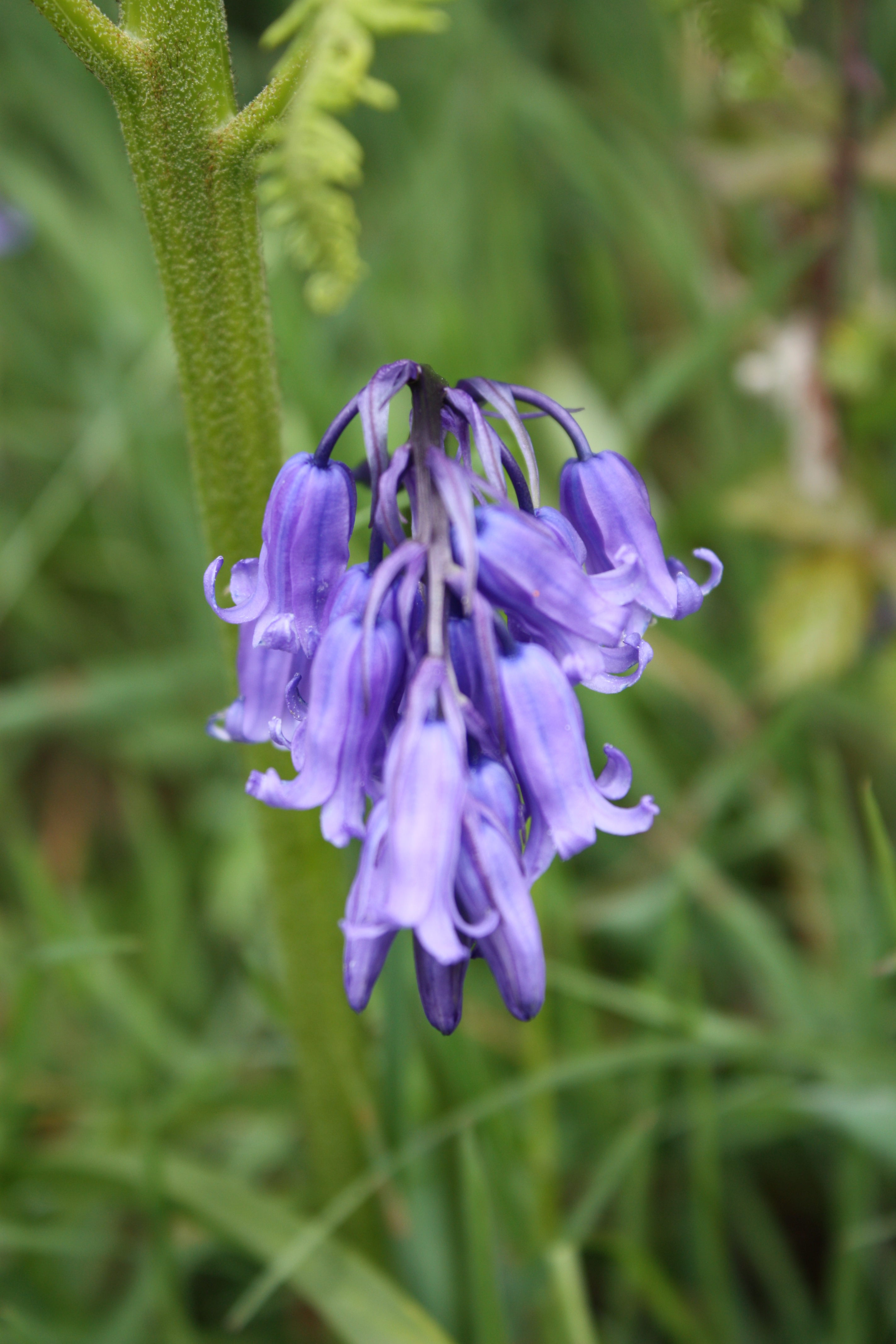 Bluebells at Bloody Bridge, Kilkeel Road, Newcastle, County Down, Northern Ireland, May 2010